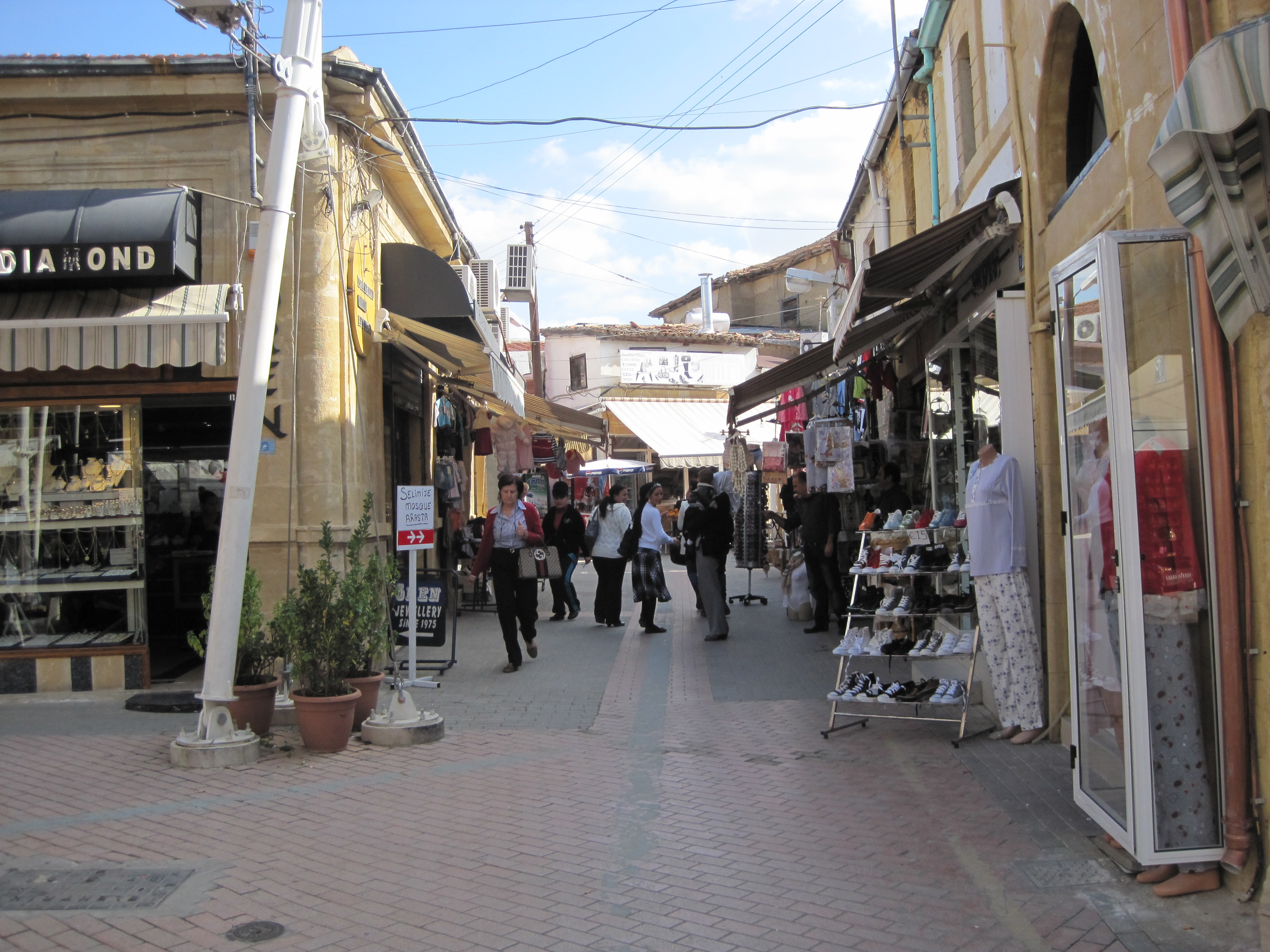 Arasta region of North Nicosia. Many shops and the Ledra Palace crossing is located in the region.